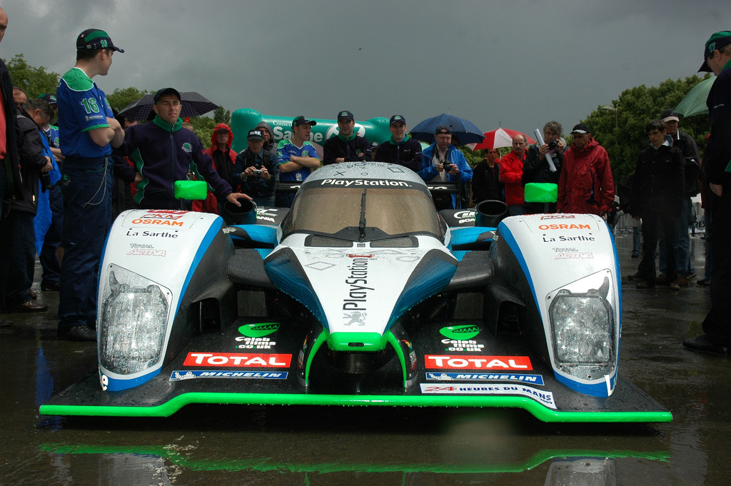 Pescarolo Sport's Peugeot 908 HDi FAP at scrutineering for the 2009 24 Hours of Le Mans